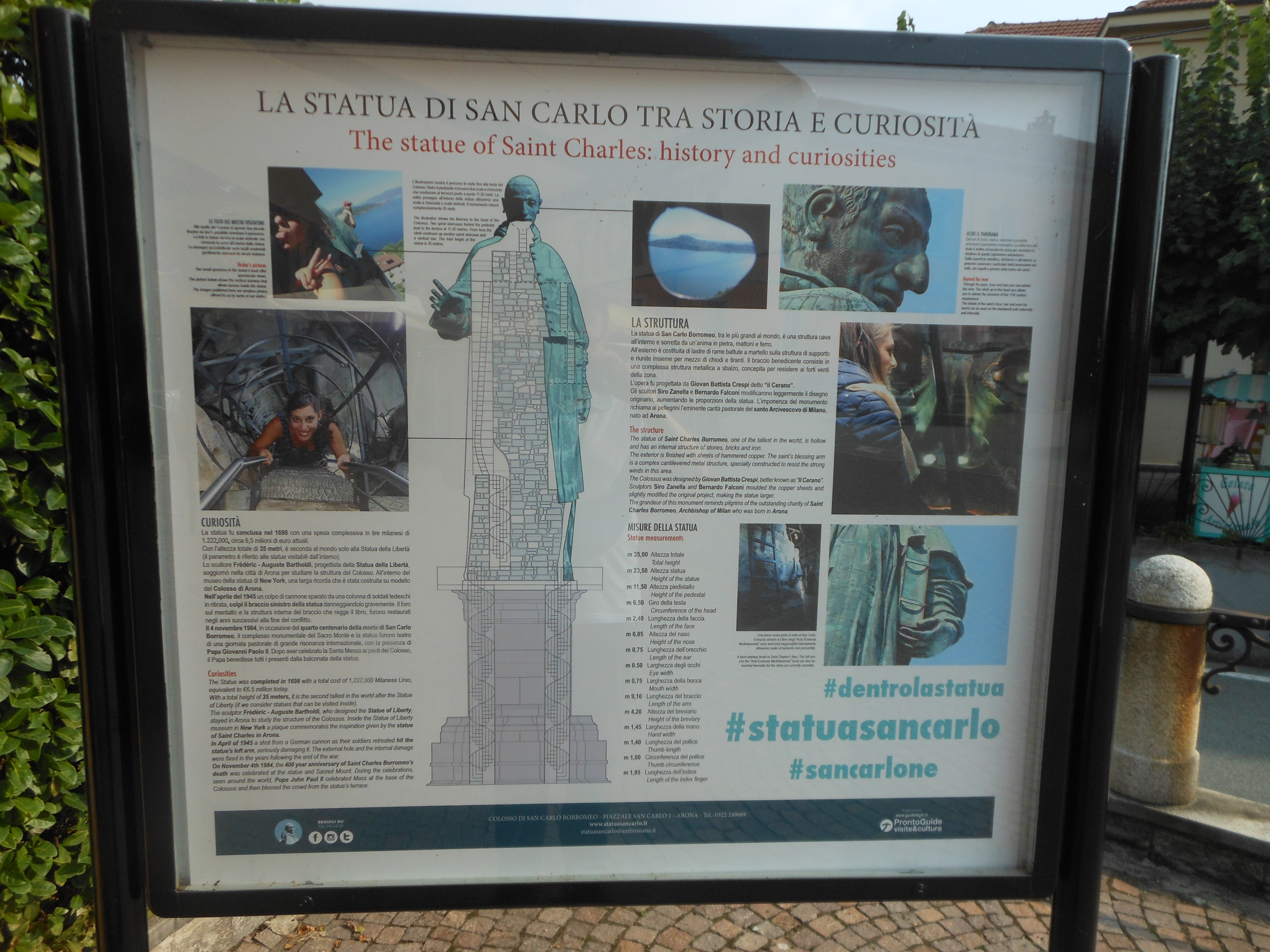 Poster outside the entrance of the Colossus of San Carlo Borromeo at Arona - Italy